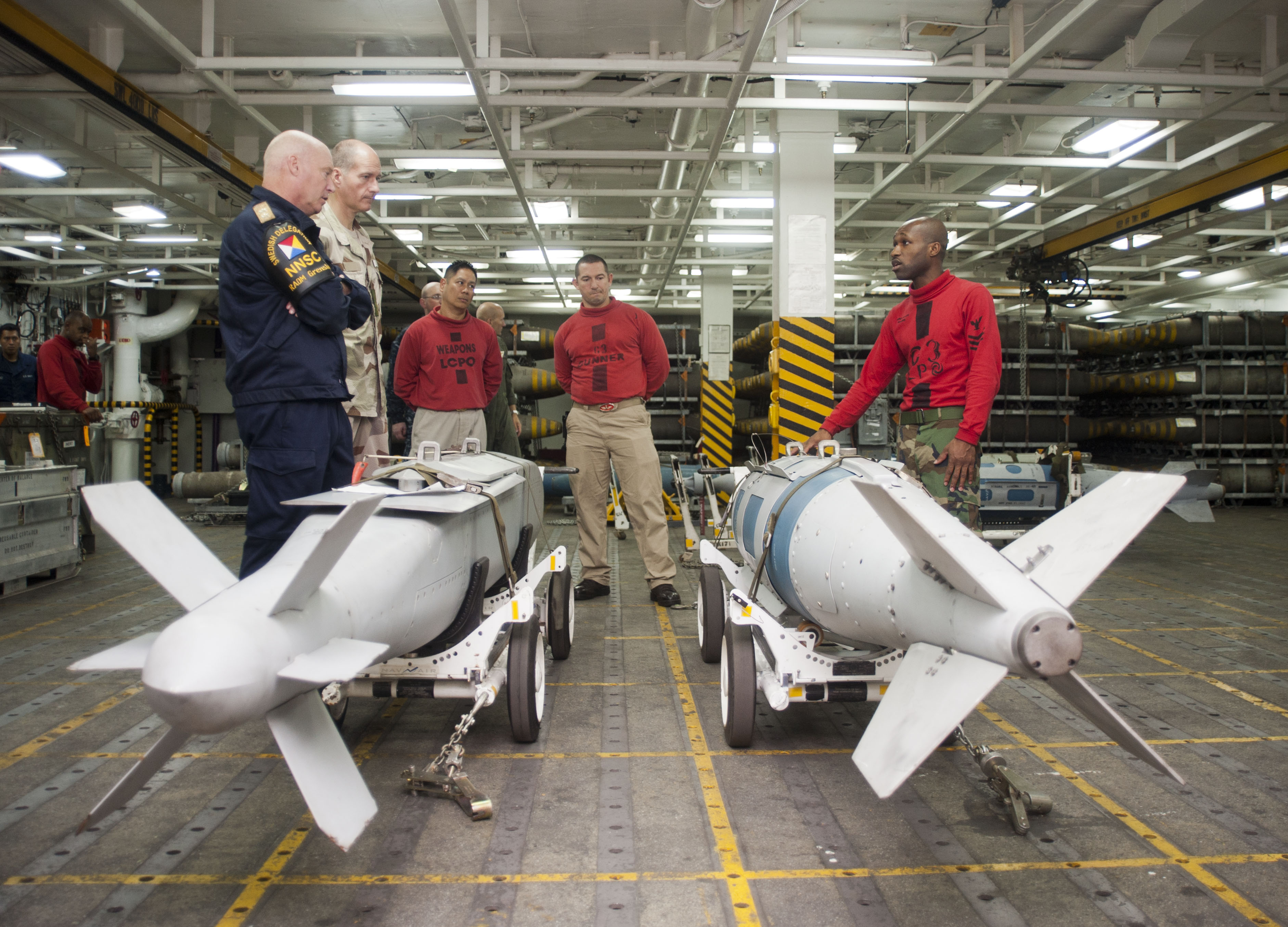 PACIFIC OCEAN (Aug. 29, 2012) Swedish navy Rear Adm. Anders Grenstad, a member of the Neutral Nations Supervisory Commission, left, learns about the guided bomb unit-31 from Aviation Ordnanceman 1st Class David Harris, from Tampa, Fla., right, during an overnight visit aboard the aircraft carrier USS George Washington (CVN 73). Grenstad visited George Washington to get a first-hand view of daily operations aboard an underway aircraft carrier. (U.S. Navy photo by Mass Communication Specialist 3rd Class William Pittman/Released) 120829-N-SF704-187 Join the conversation navylive.dodlive.mil